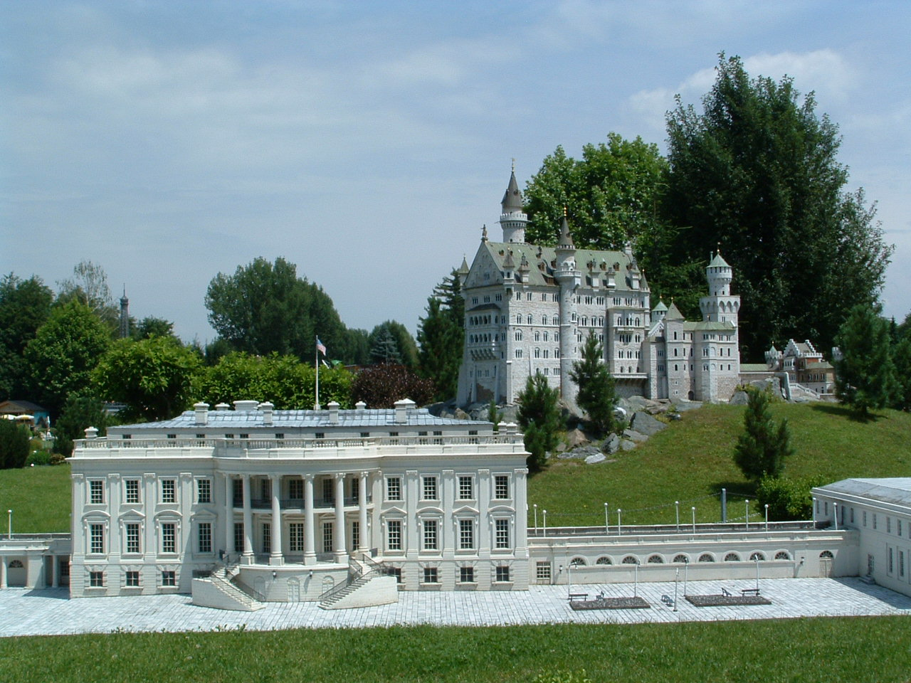 Models of the White House and Neuschwanstein at Minimundus.